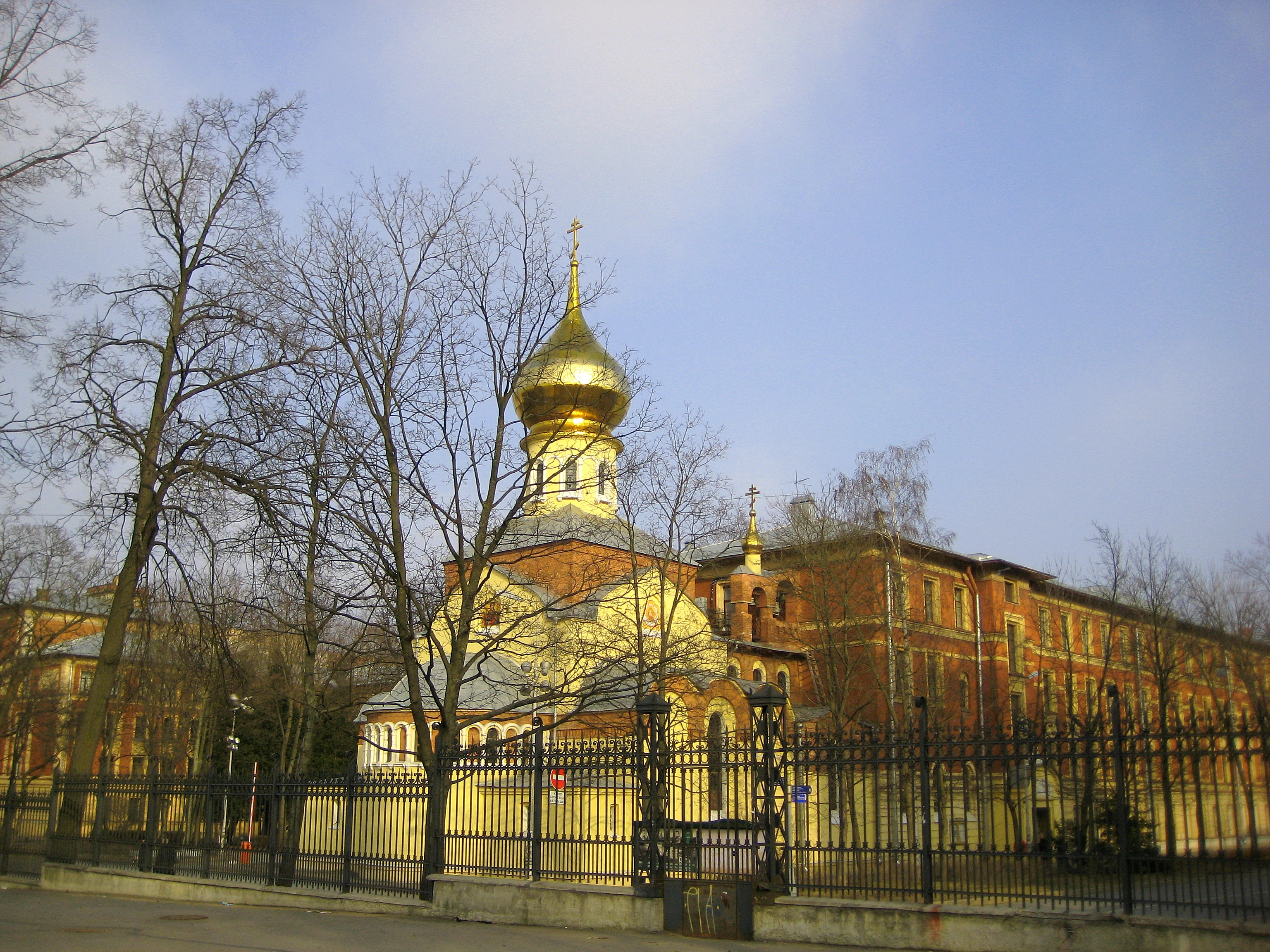 St. Petersburg. Church of Protection of the Theotokos at the Polytechnic University. Polytechnique str. 29.